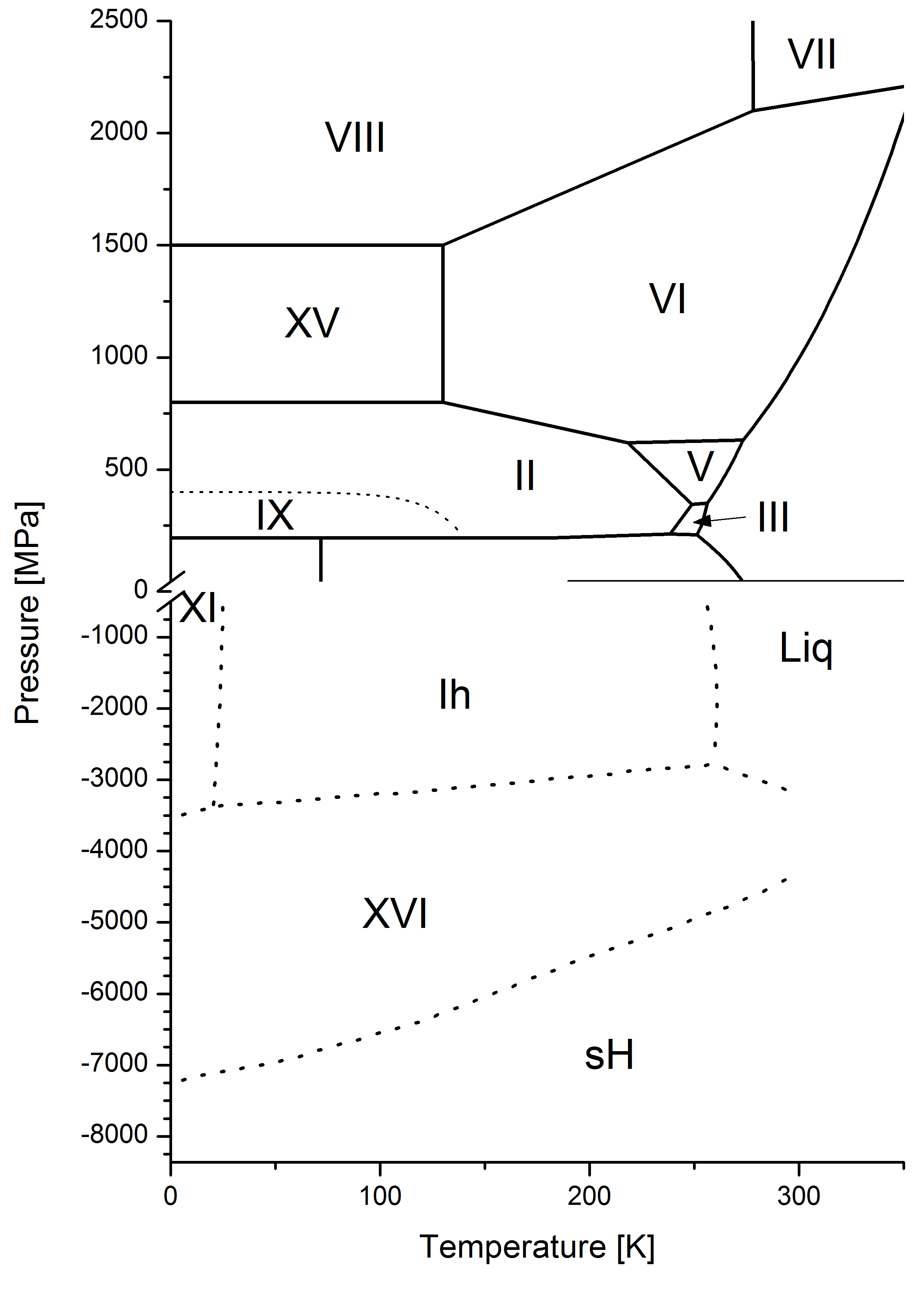 Water phase diagram extended to negative pressures. Phase boundaries at the negative pressure have been calculated with TIP4P/2005 model (after Conde et al., 2009). sH stands for a hypothetical expanded water structure topologically similar to sH clathrate hydrate